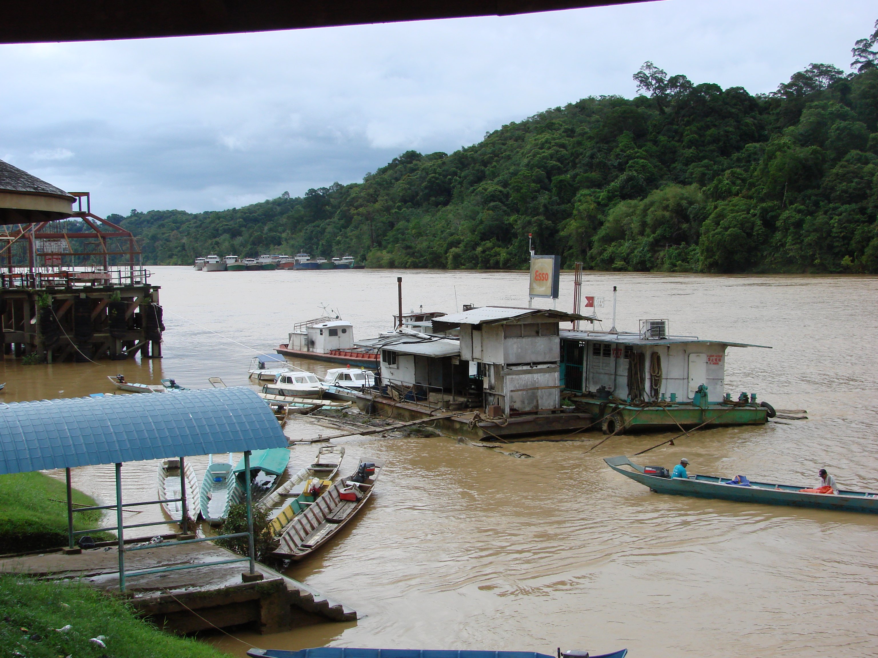 Floating Esso petrol station at Kapit riverside providing fuel supply for speedboats commuting to and from Kapit wharf terminal daily.